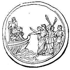 738 woodcuts illustrating the work A Dictionary of Roman Coins, Republican and Imperial (1889). To identify a coin please look at the filename to identify a page number, and check the Dictionary on numiswiki